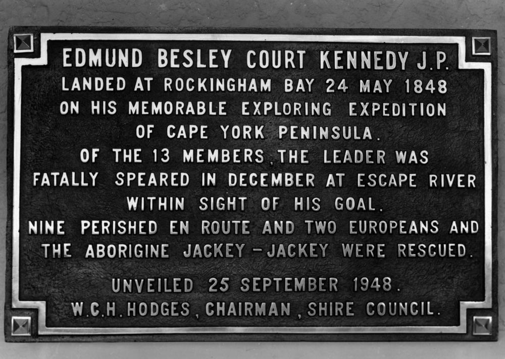 Memorial plaque for Edmund Kennedy, Rockingham Bay, 1948 In 1848 the Assistant-Surveyor of New South Wales, Edmund Kennedy, led an expedition to explore Cape York Peninsula. In the previous year he had discovered the Thomson River and established that the Barcoo River was part of Cooper's Creek. Arriving at Rockingham Bay (north of Townsville) in May, Kennedy's party, after much privation and toil, reached Weymouth Bay, where they established a depot. Kennedy, with four others, Costigan, Dunn, Luff, and a indigenous Australian, Jacky Jacky, left this depot in an endeavour to reach Cape York, where a relief ship was expected.